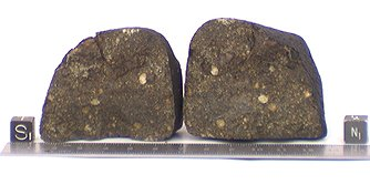 "Meteorite Hills 00506" (MET00506) meteorite, H3.4.